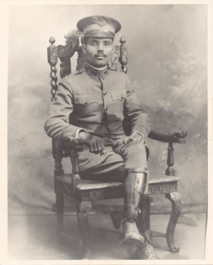 Puerto Rican politician Pedro Albizu Campos as 1st Lieutenant of the US Army; Puerto Rican Institute of Culture public domain at